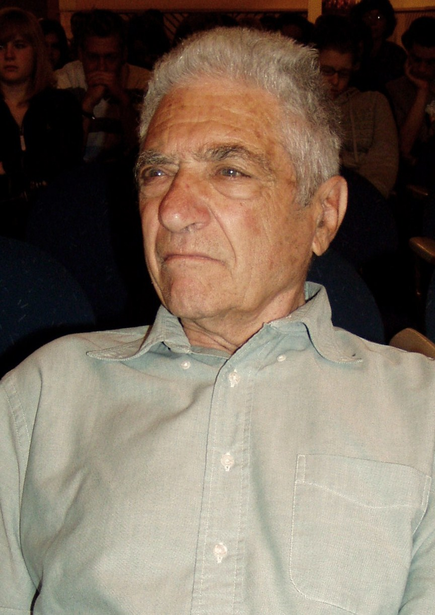 Jack Steinberger (* 1921), US-American scientist, born in Germany